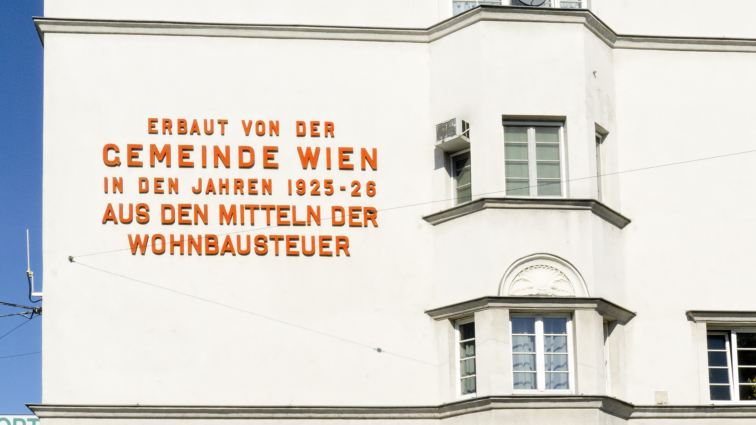 Residential building Schlinger-Hof in Vienna 21